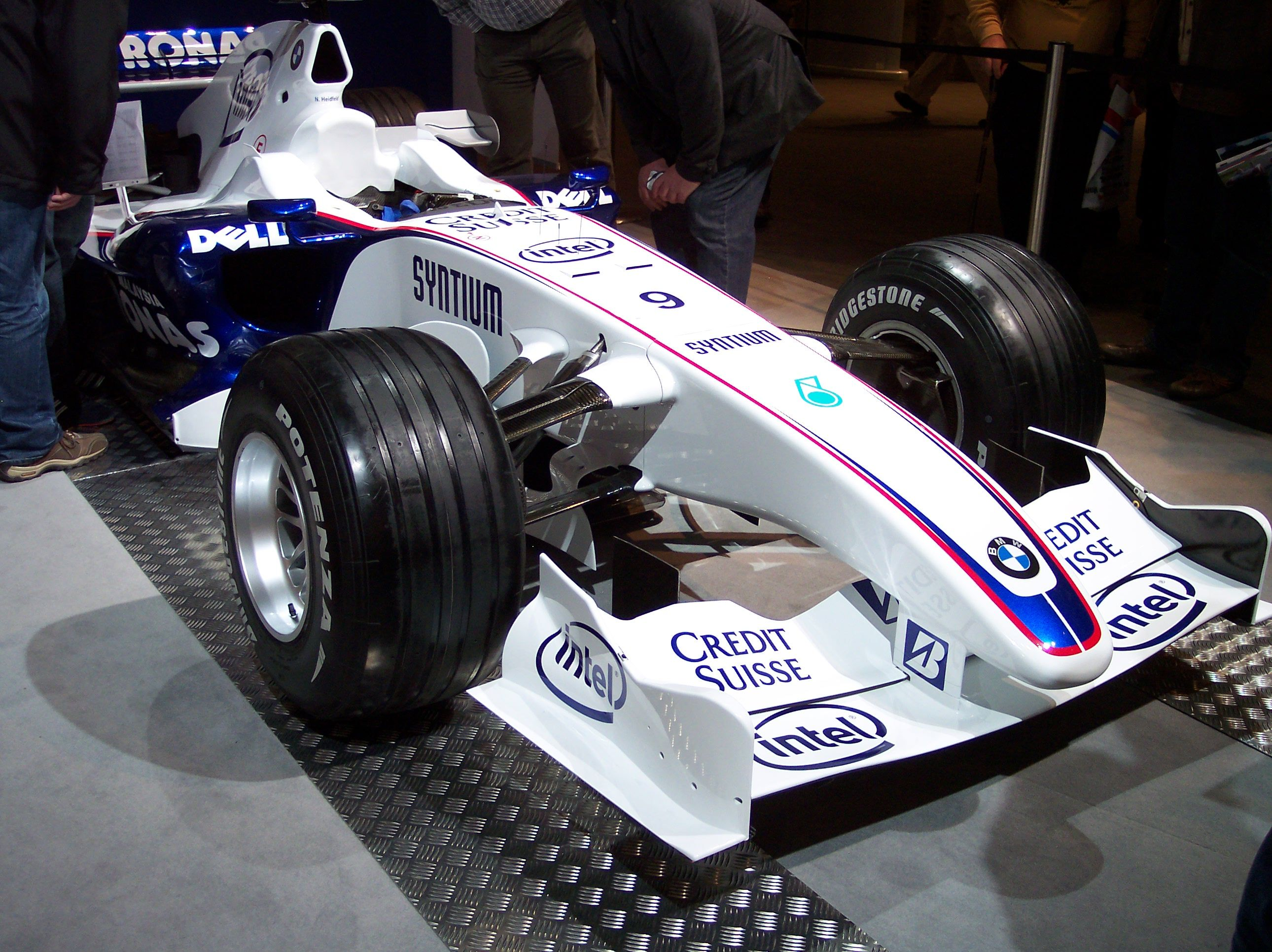 BMW Sauber F1.06 in F1.07's livery.